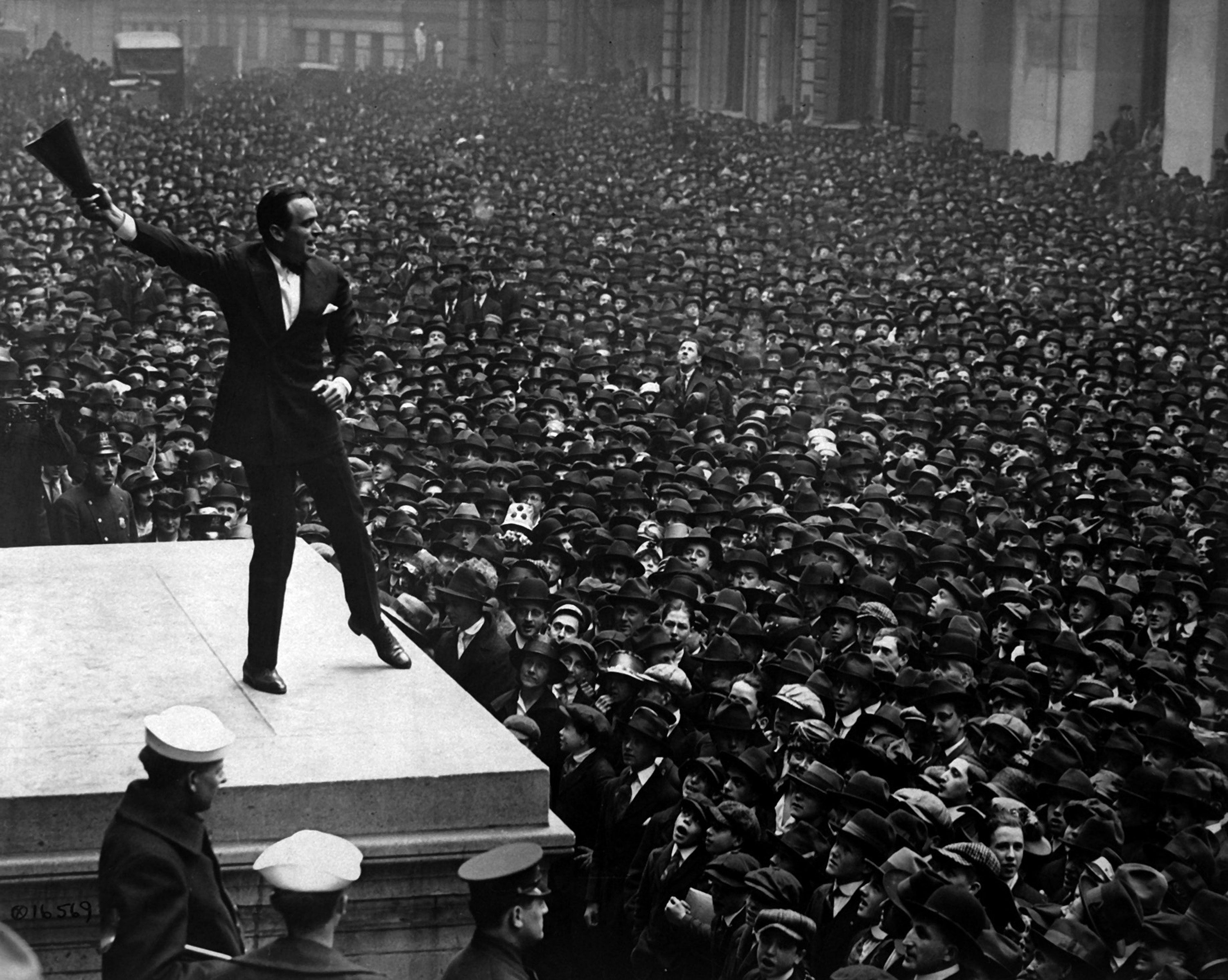 Douglas Fairbanks, movie star, speaking in front of the Sub-Treasury building, New York City, to aid the third Liberty Loan. ID: HD-SN-99-02174